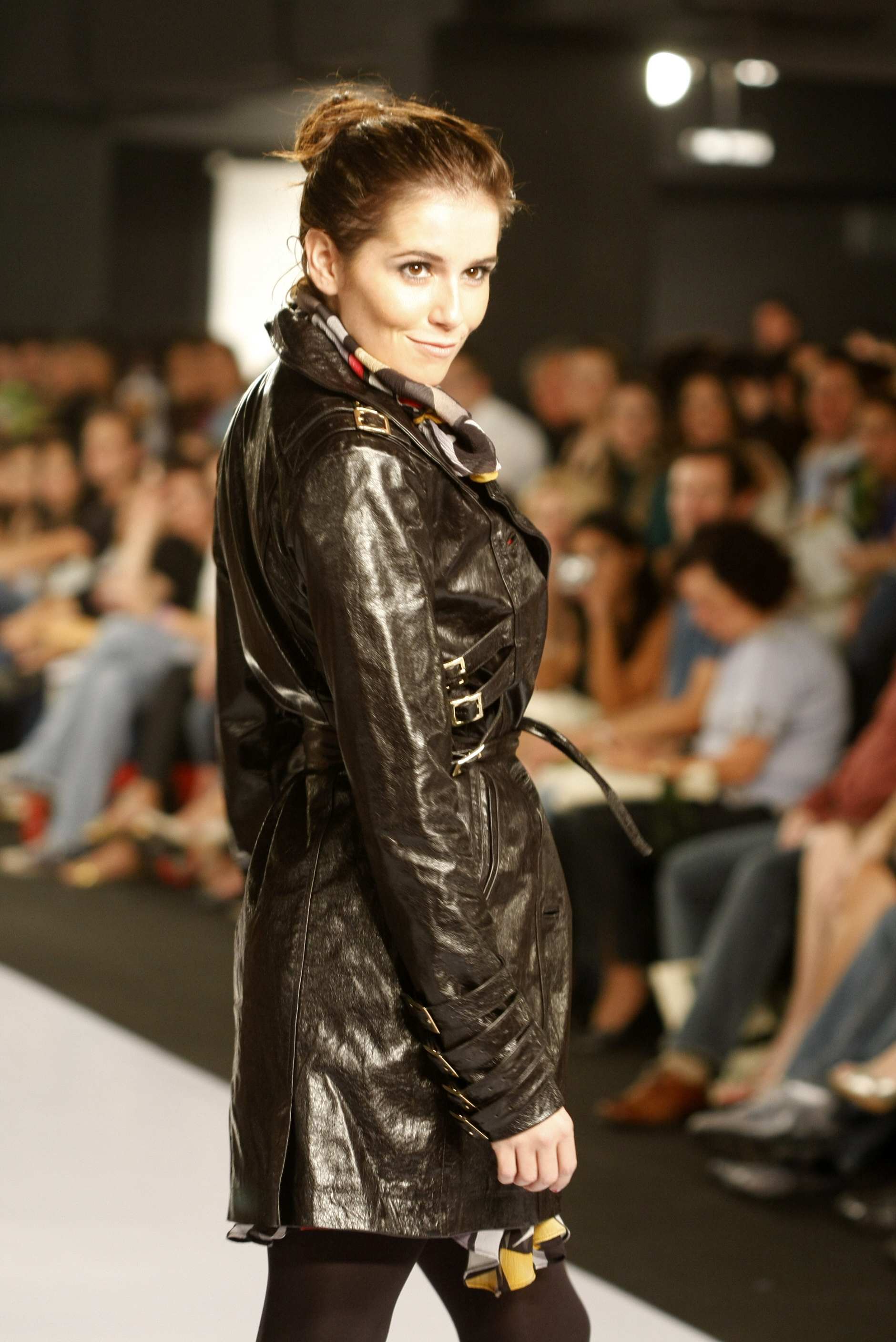 Deborah Secco in Crystal Fashion 2008.